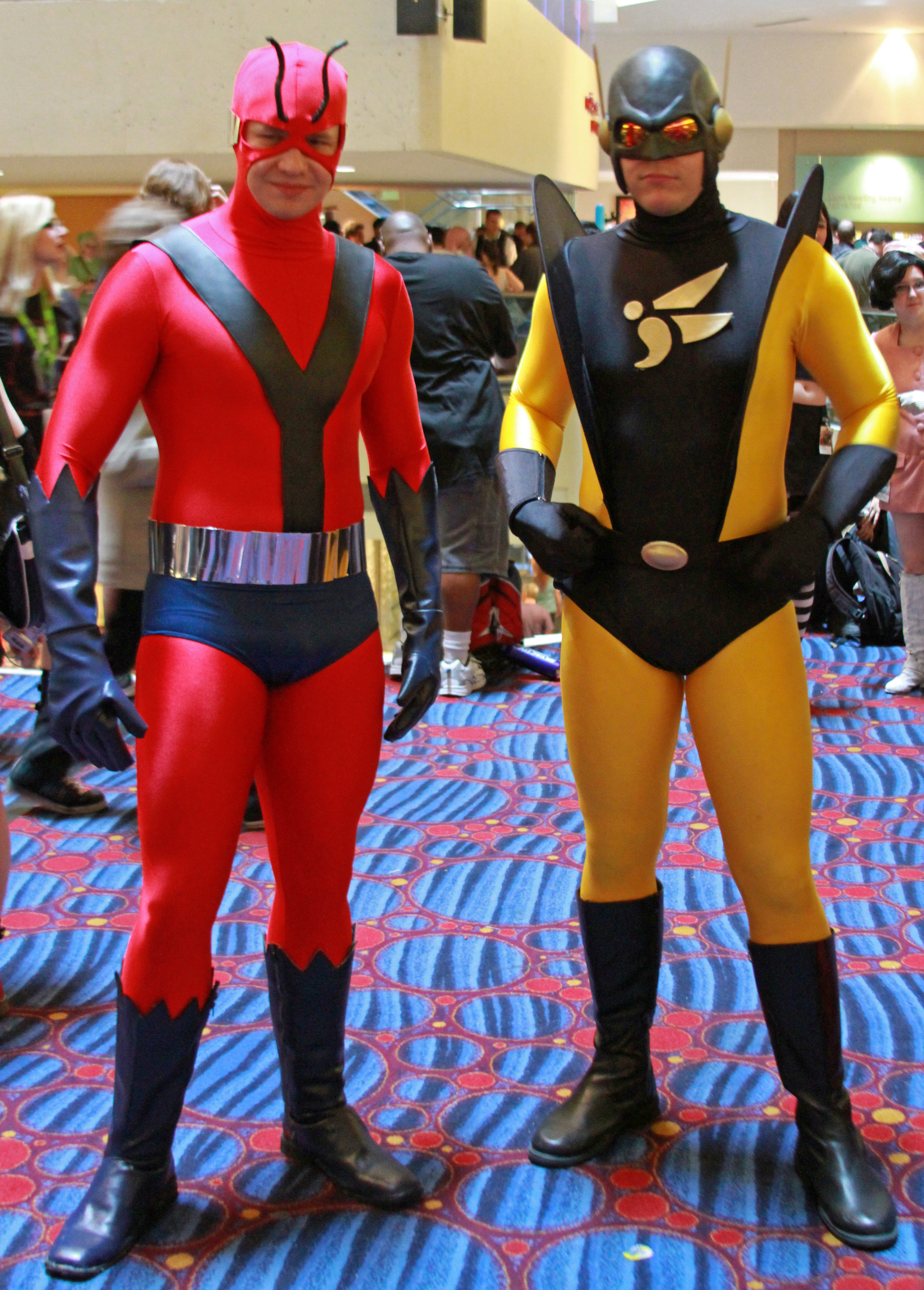 Cosplays of Ant-Man and Yellow Jacket, Dragon Con 2012